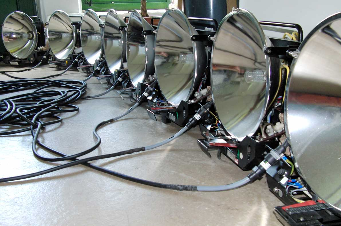 High Power Stroboscope (16 KW). Made of 8 Siemens 2 KW airport flash lights. Each tube can flash 2 Hz @ 60 Ws energy. Controlled with an Attiny2313. Hear the stroboscope flashing.